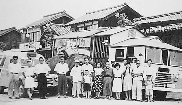 Moving Zoo of Hippopotamus (Kabako,deka) 1953-1955, Japan.